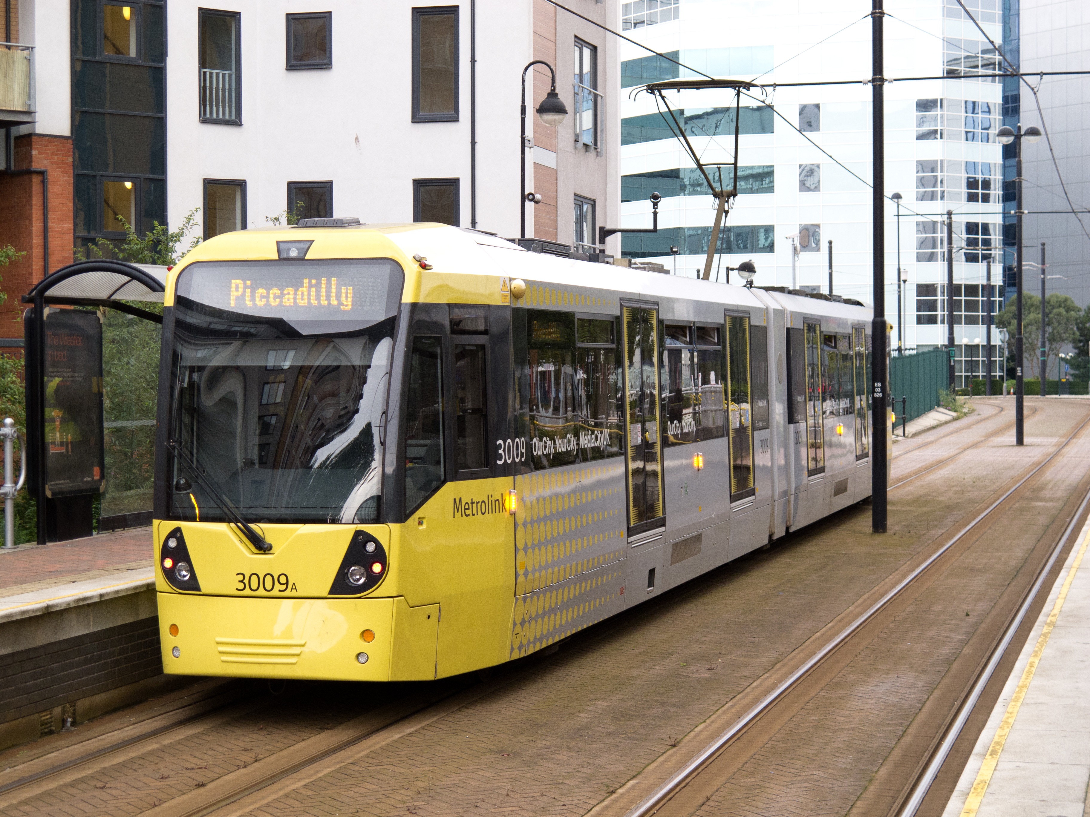 Greater Manchester's Metrolink tram number 3009A, in Salford Quays, Greater Manchester, England.